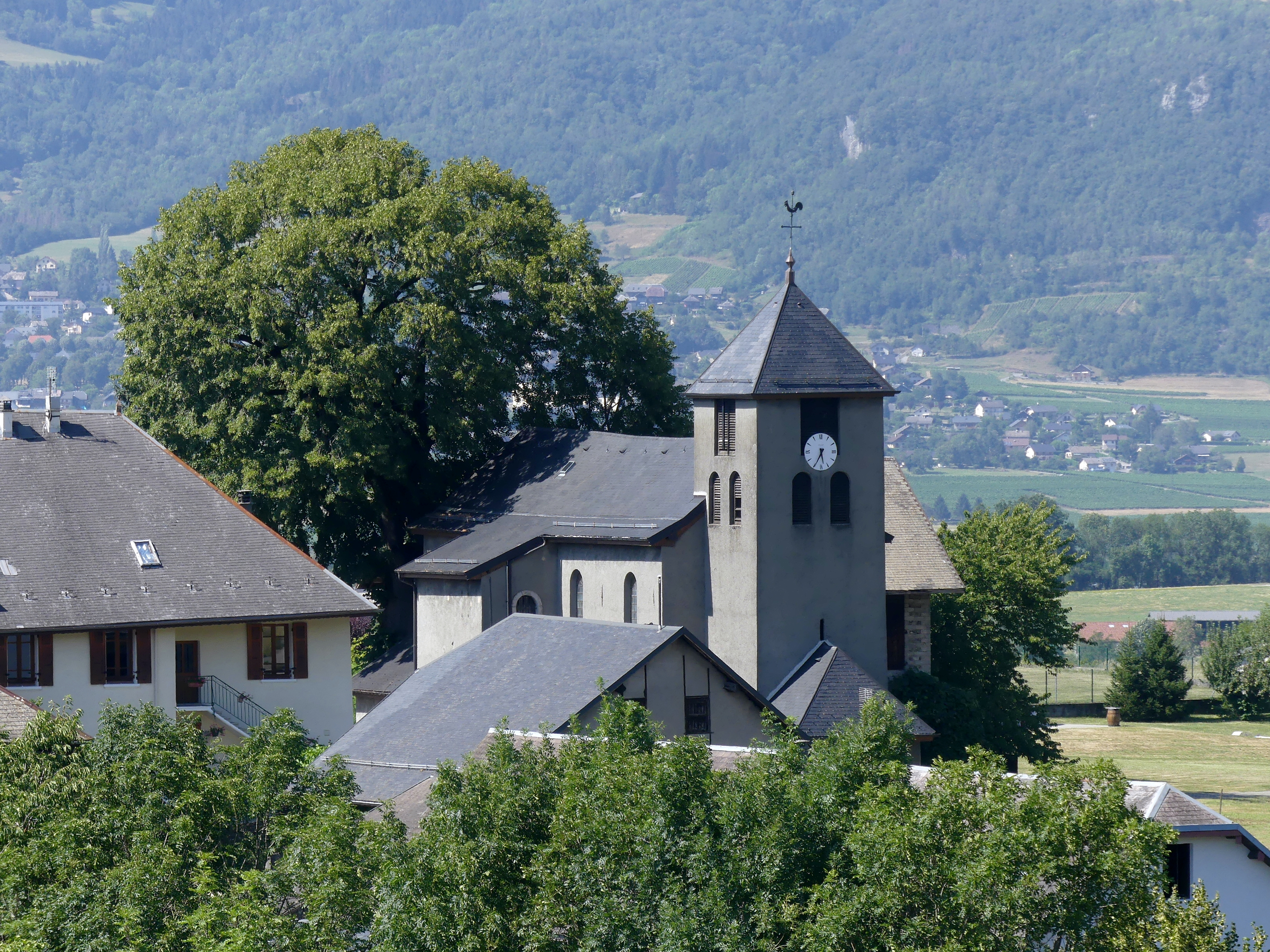 Sight of the church of Hauteville, in Savoie, France.